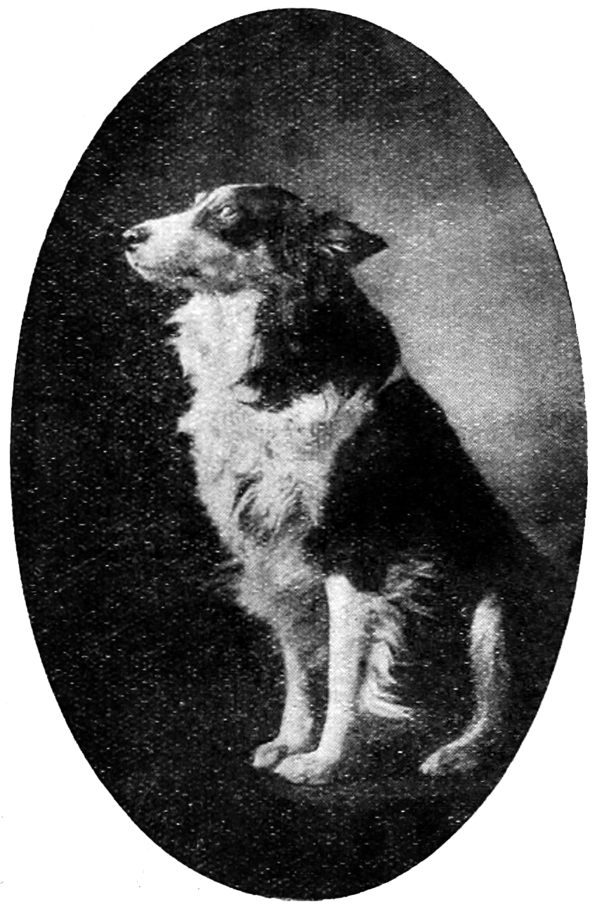 Photograph of Jean the Vitagraph Dog